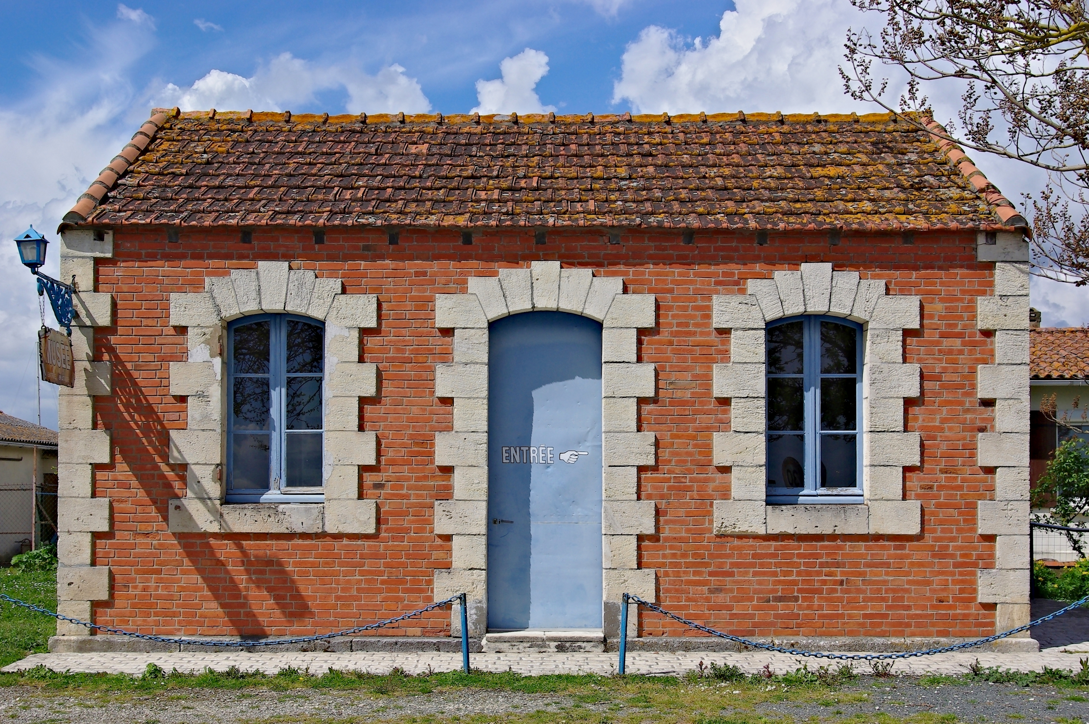 Local museum of postcards, Mortagne-sur-Gironde, France.